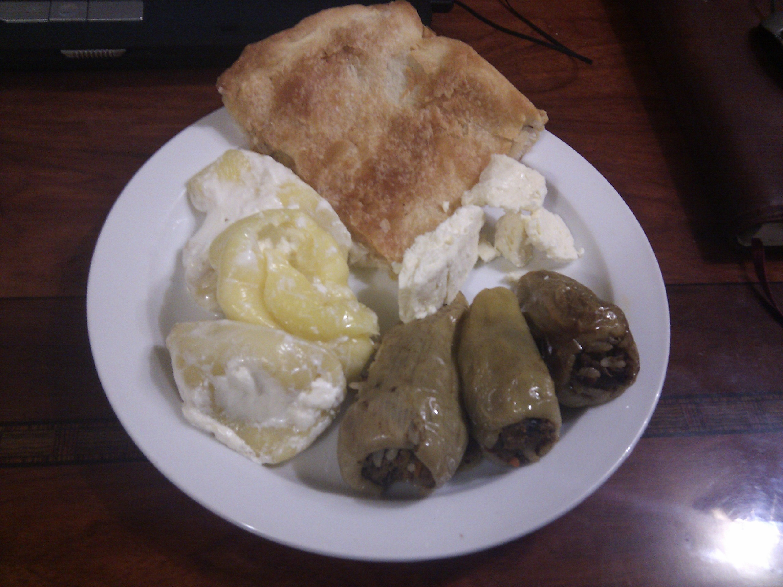 A typical Kosovar Lunch, consisting of Sarma, Peppers filled with Cheese and Kos, and Pite.